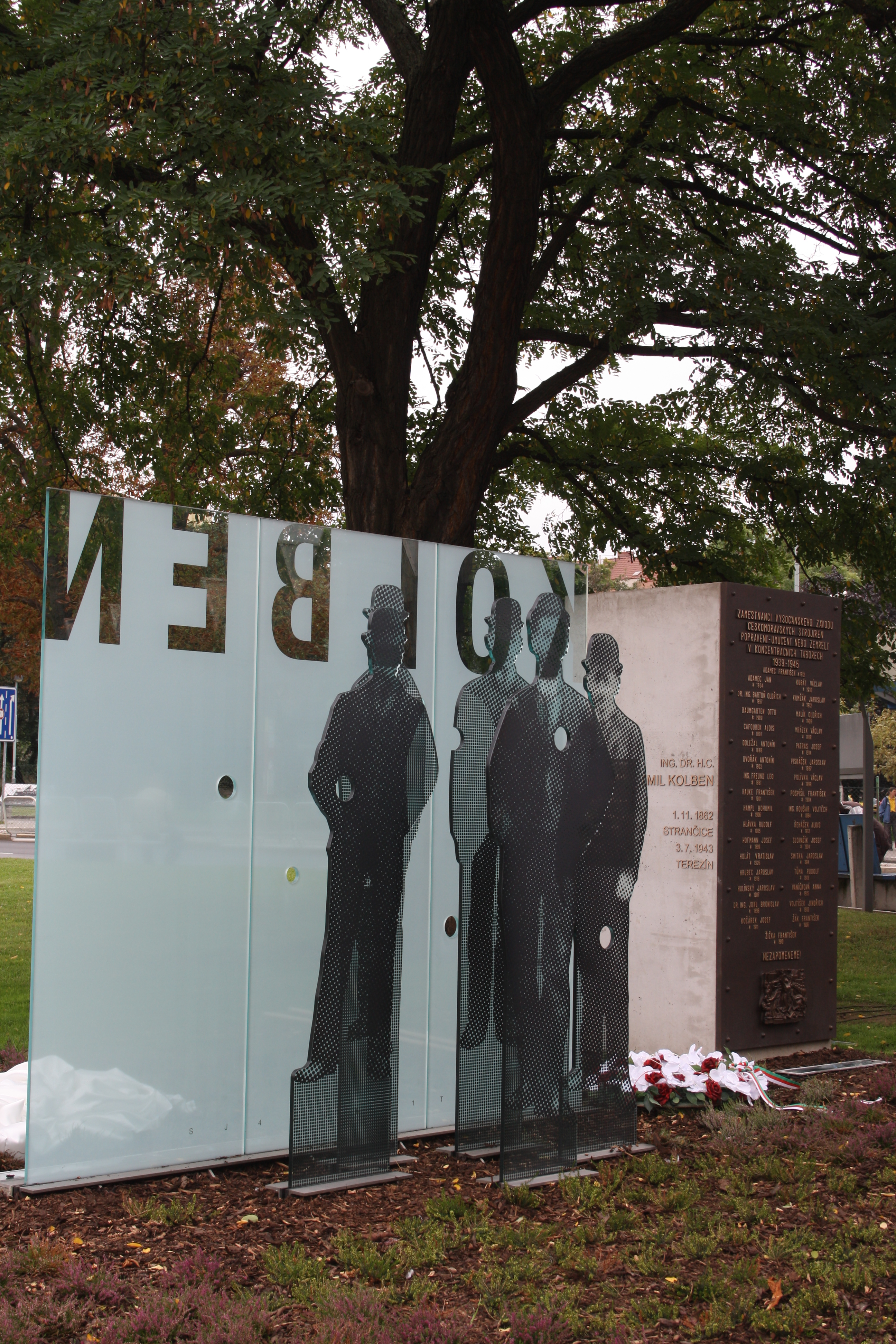 Praha, Vysočany, Czech republic, memorial of Emil Kolben